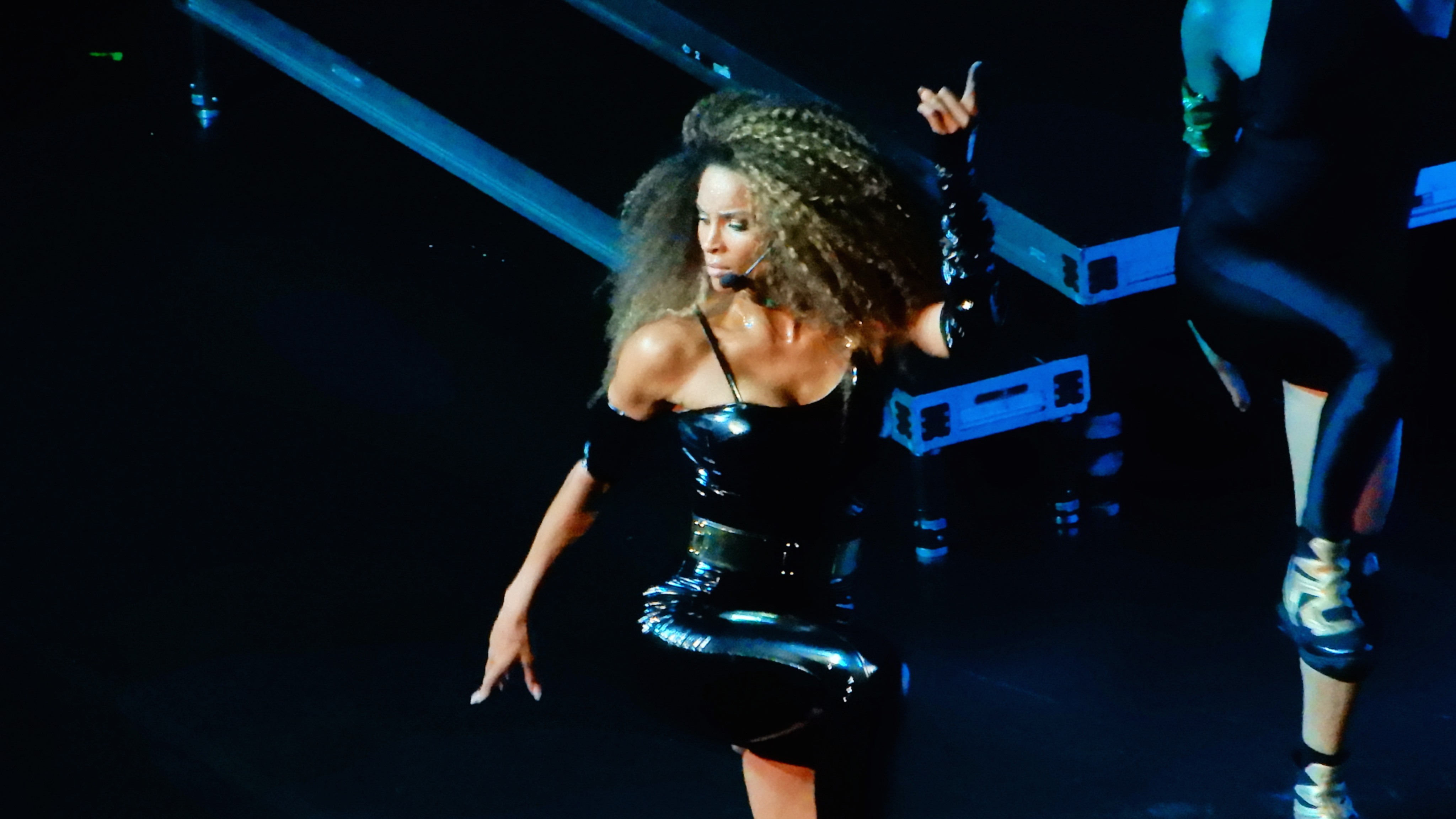 Ciara Opening for Bruno Mars at the Prudential Center in Newark